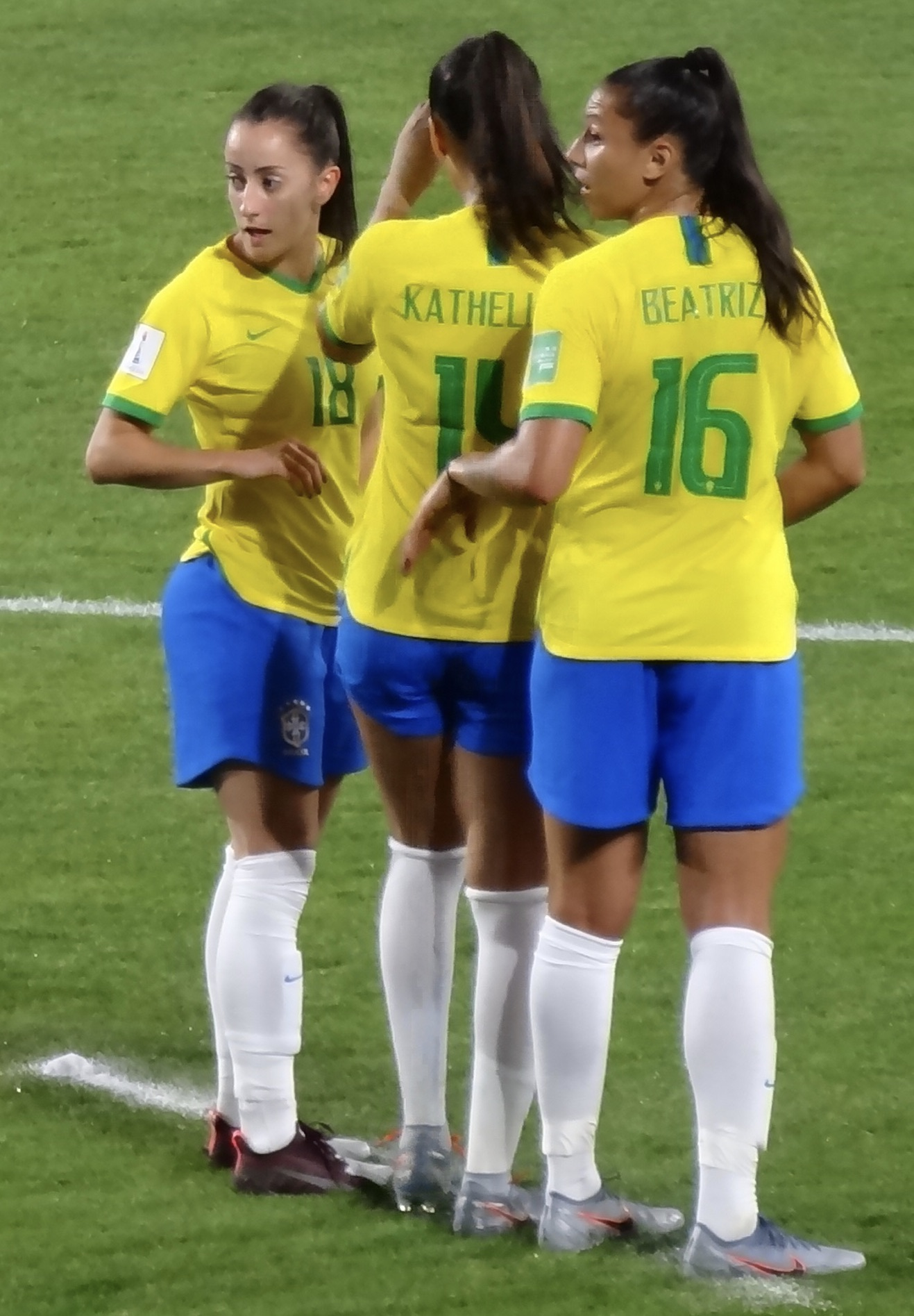 Luana, Kathellen & Beatriz (World Cup 2019)